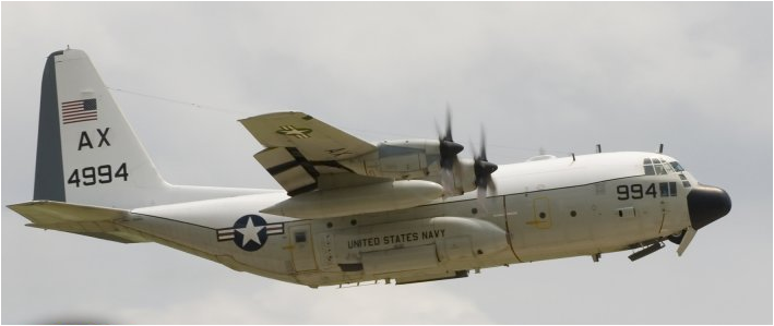 A U.S. Navy Lockheed C-130T Hercules (BuNo 164994) from transport squadron VR-53.